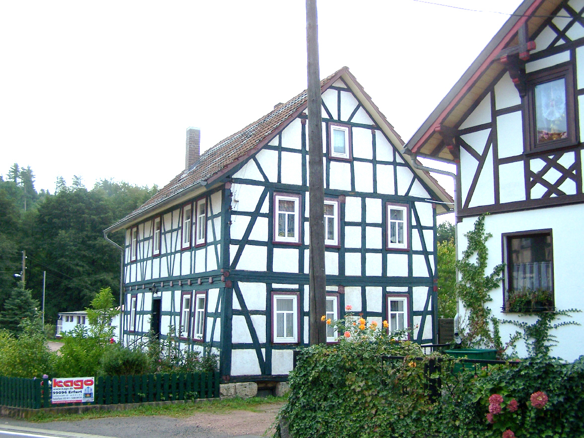 A just restored timberframed building in Unkeroda.